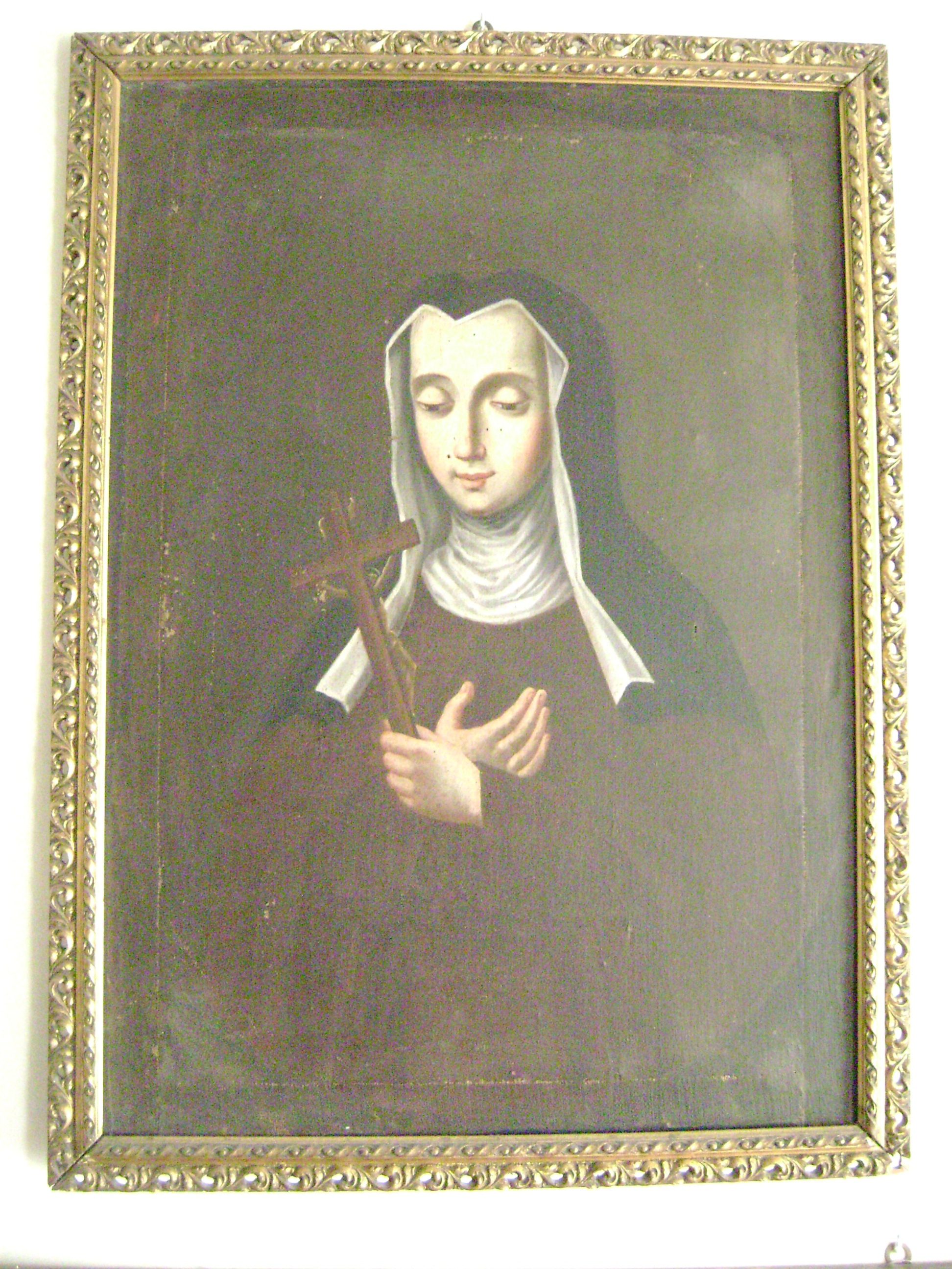 Portrait of Maria Lanceata from Montecastrilli